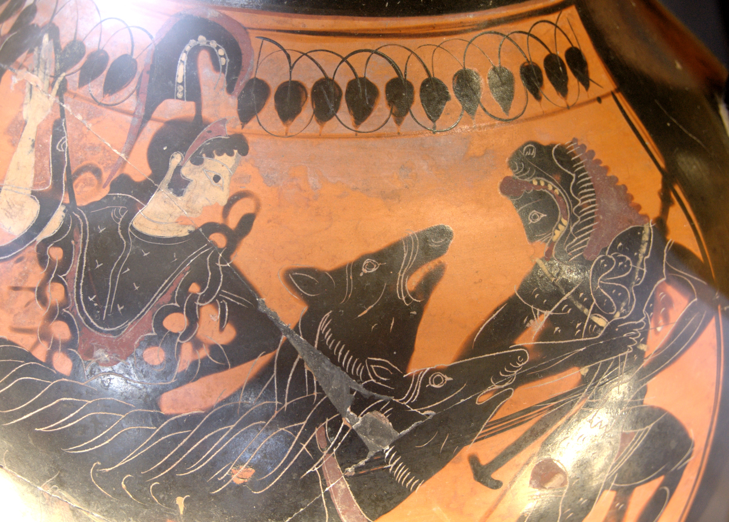 Athena, Cerberus and Heracles. Attic black-figure amphora, ca. 510 BC. From Kameiros (Rhodes).